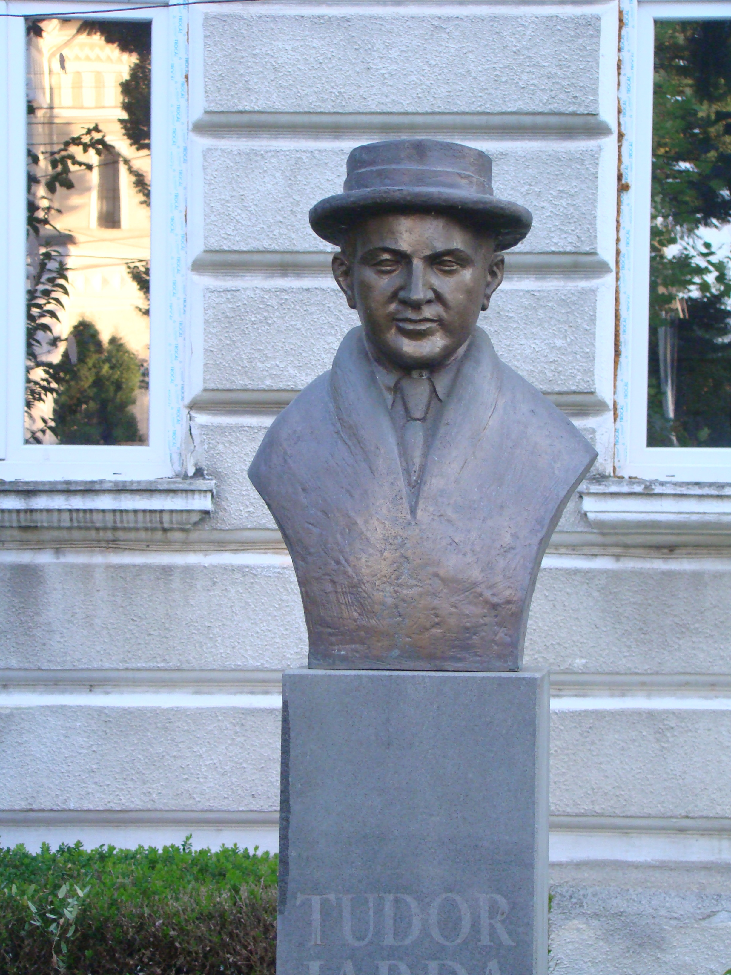 House, historic monument, in Bistrița, Alexandru Odobescu street 8